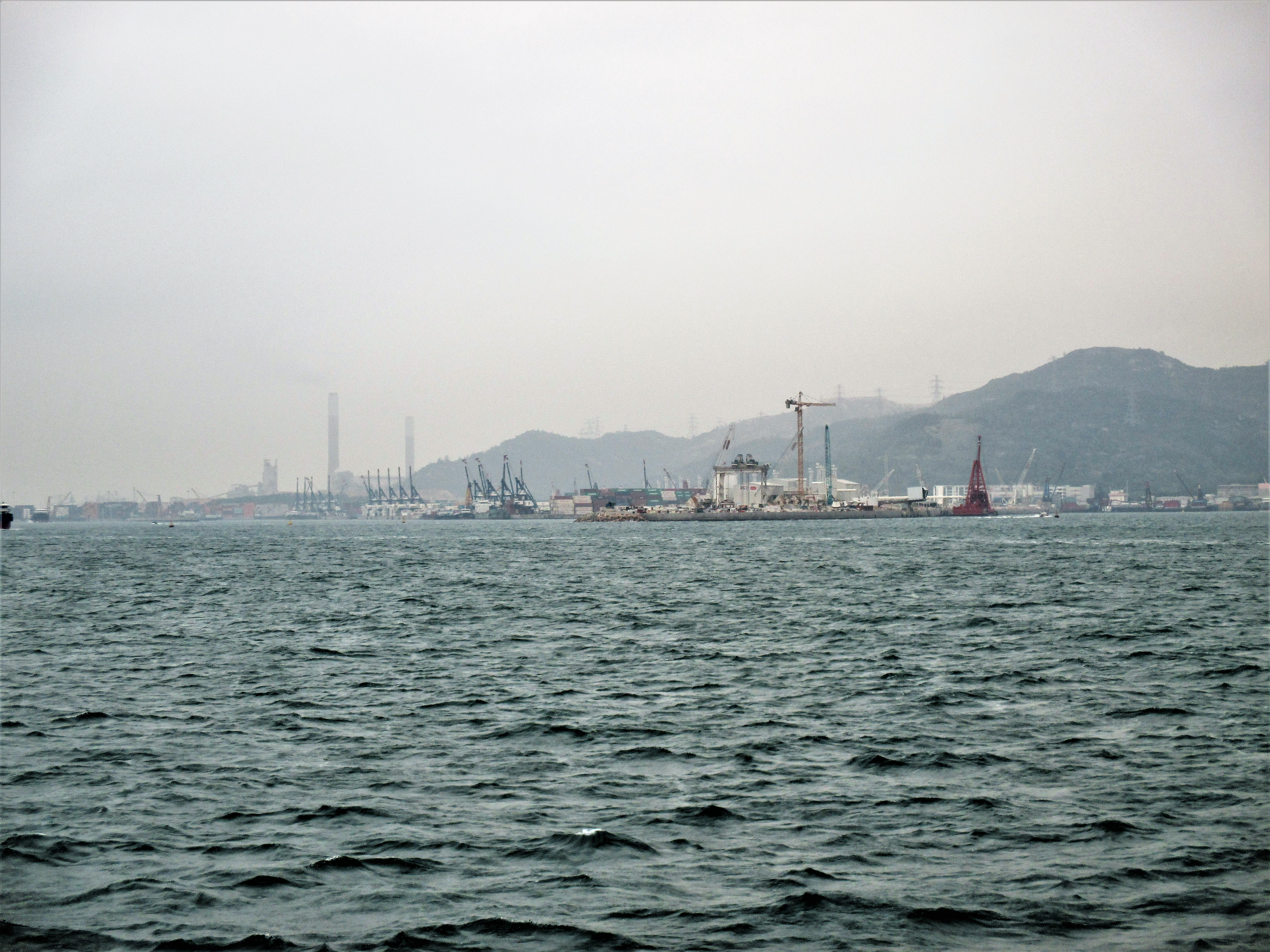 Location: Urmston Road (water channel). Distant view of Castle Peak Power Station. Pillar Point of Tuen Mun District is on the right. Construction work for the Tuen Mun - Chek Lap Kok Link (Tuen Mun side tunnel entrance) is visible.